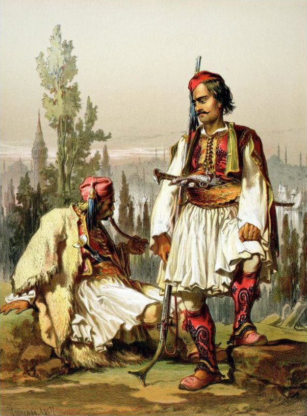 Painting of 19th century - Albanians Mercenaries in the Ottoman Army